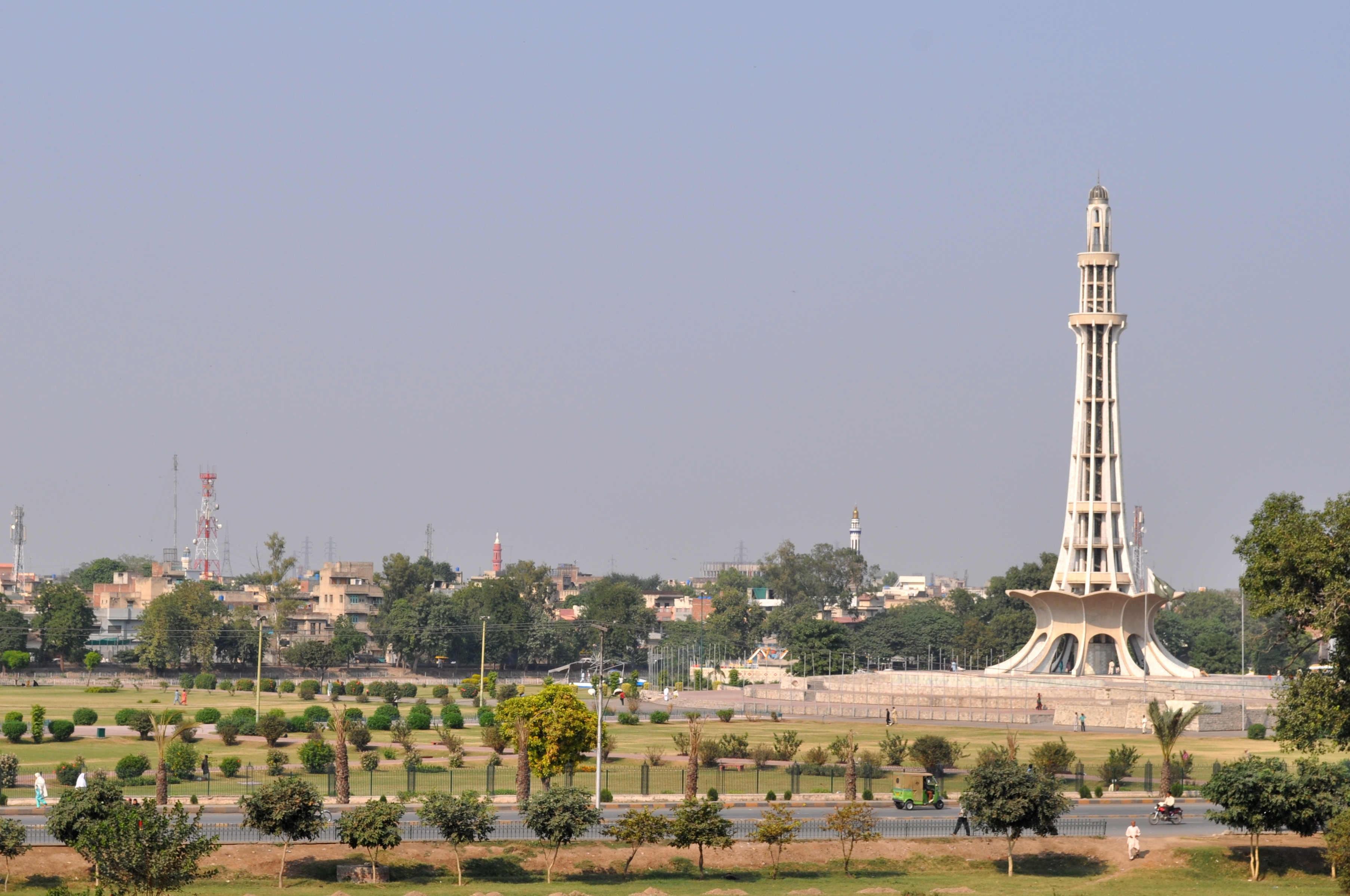 Minar-e-Pakistan 2011